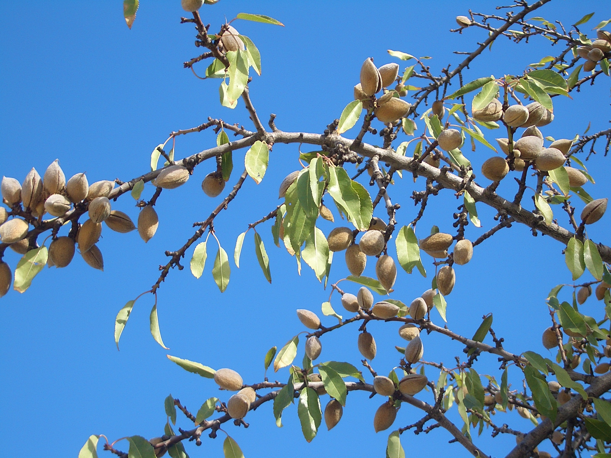 Ripe almonds on the tree branch in a Kadina garden